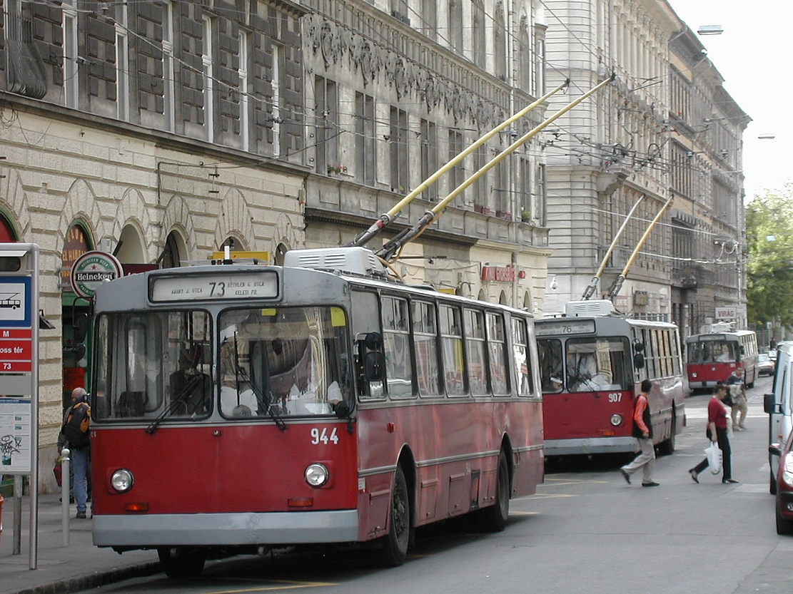 ZIU-9 trolleybuses in Bethlen Gábor utca, Budapest District VII